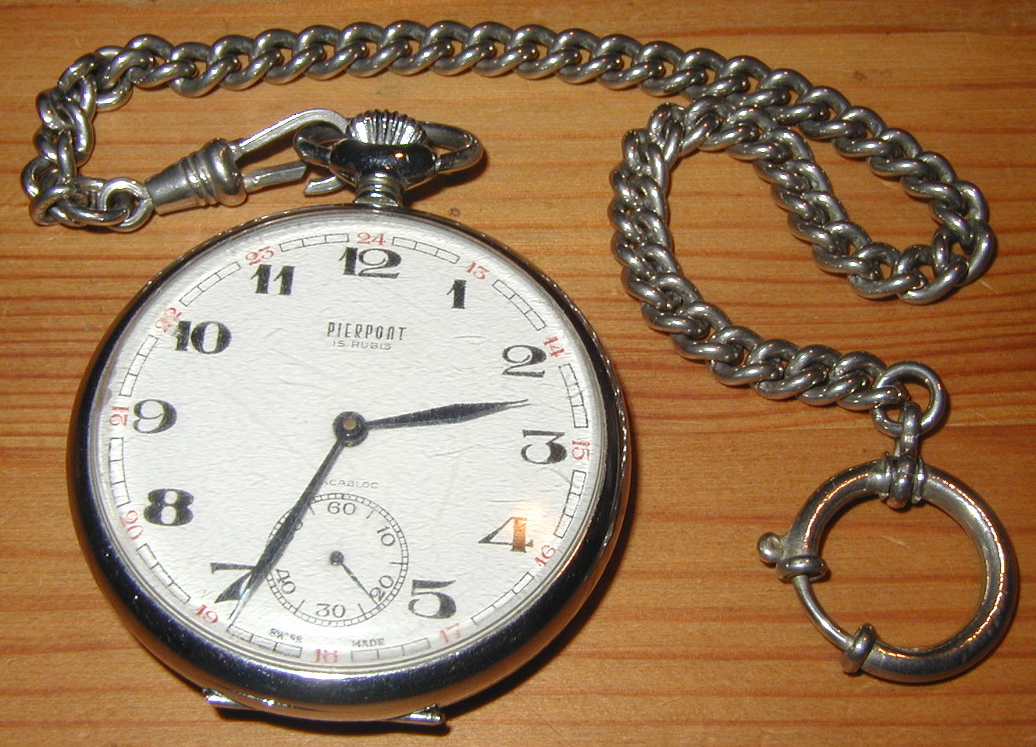 Pocket watch with chain carried by Christopher Walkins. Picture taken and uploaded by Roger McLassus (owner).